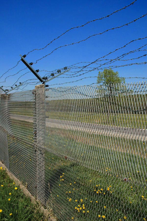 Preserved section of signal fence on the former inner German border in Thuringia.